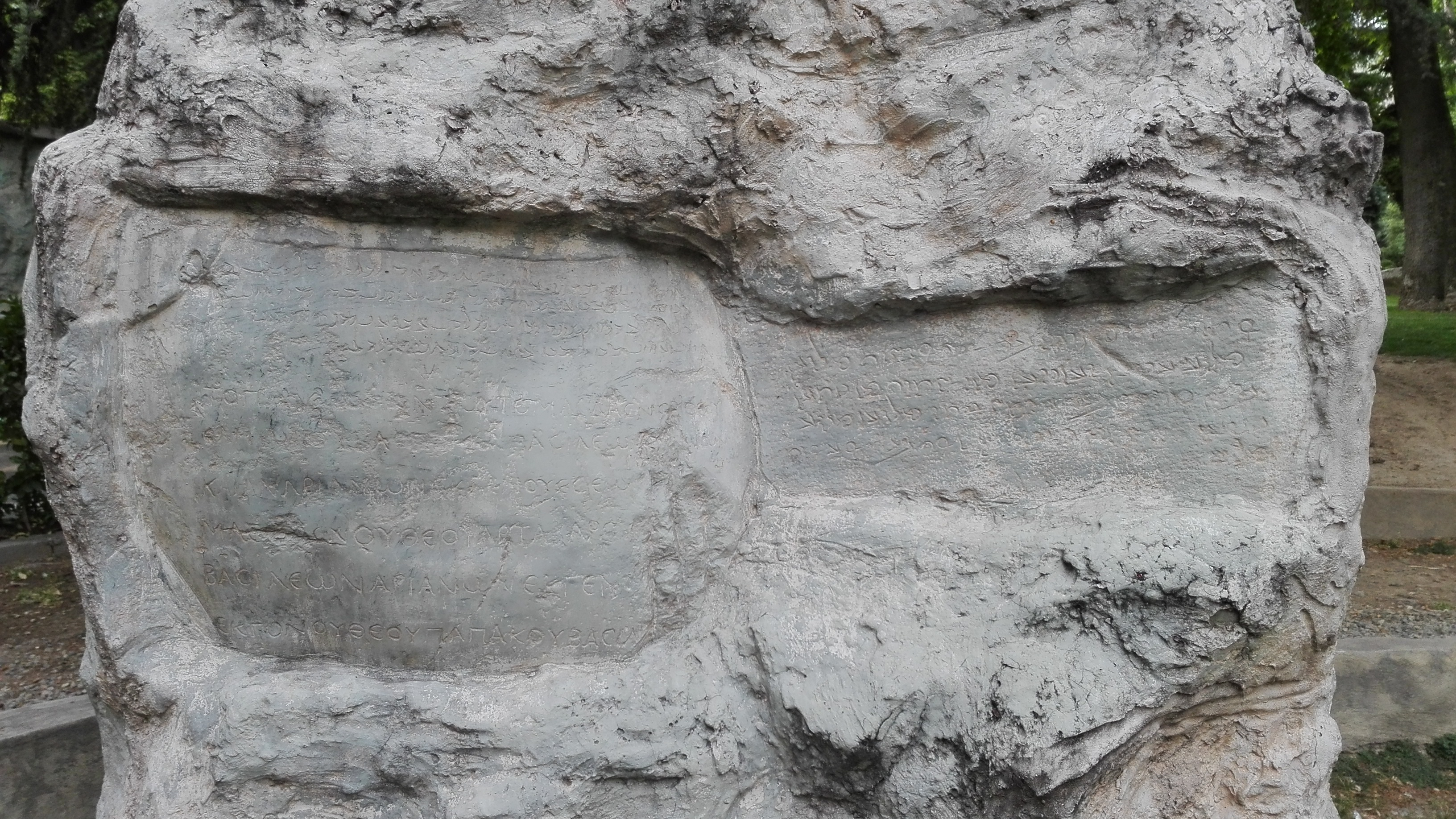 taken in inscription garden, Tehran